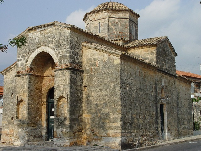 Saint Theodoroi church in Kampos Avias, Messenia, Greece